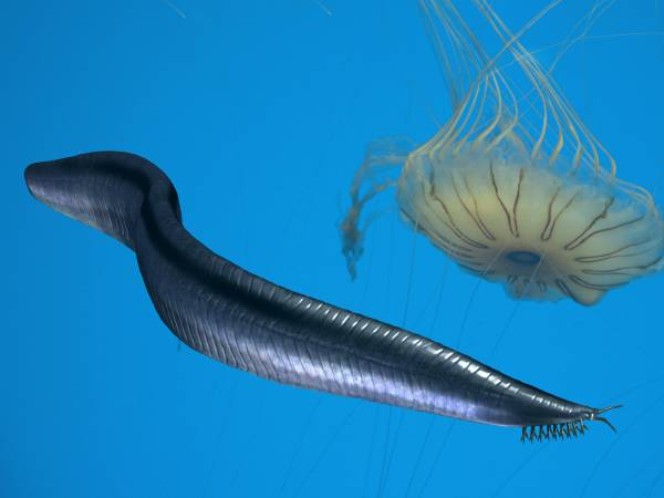 Life reconstruction of Pikaia gracilens